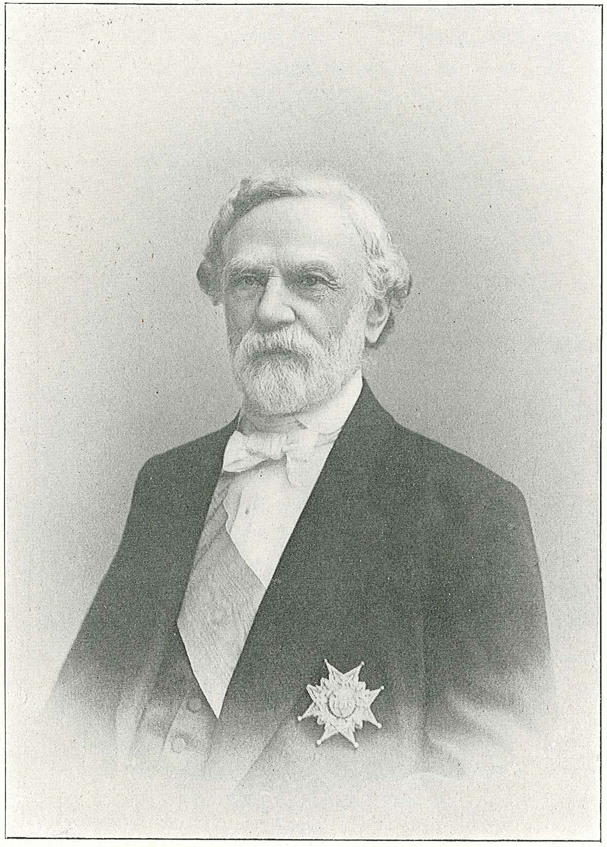 Pehr von Ehrenheim (1823-1918), Swedish nobleman, businessman, minister without portfolio, speaker of the upper house of parliament, member of the Swedish Academy.